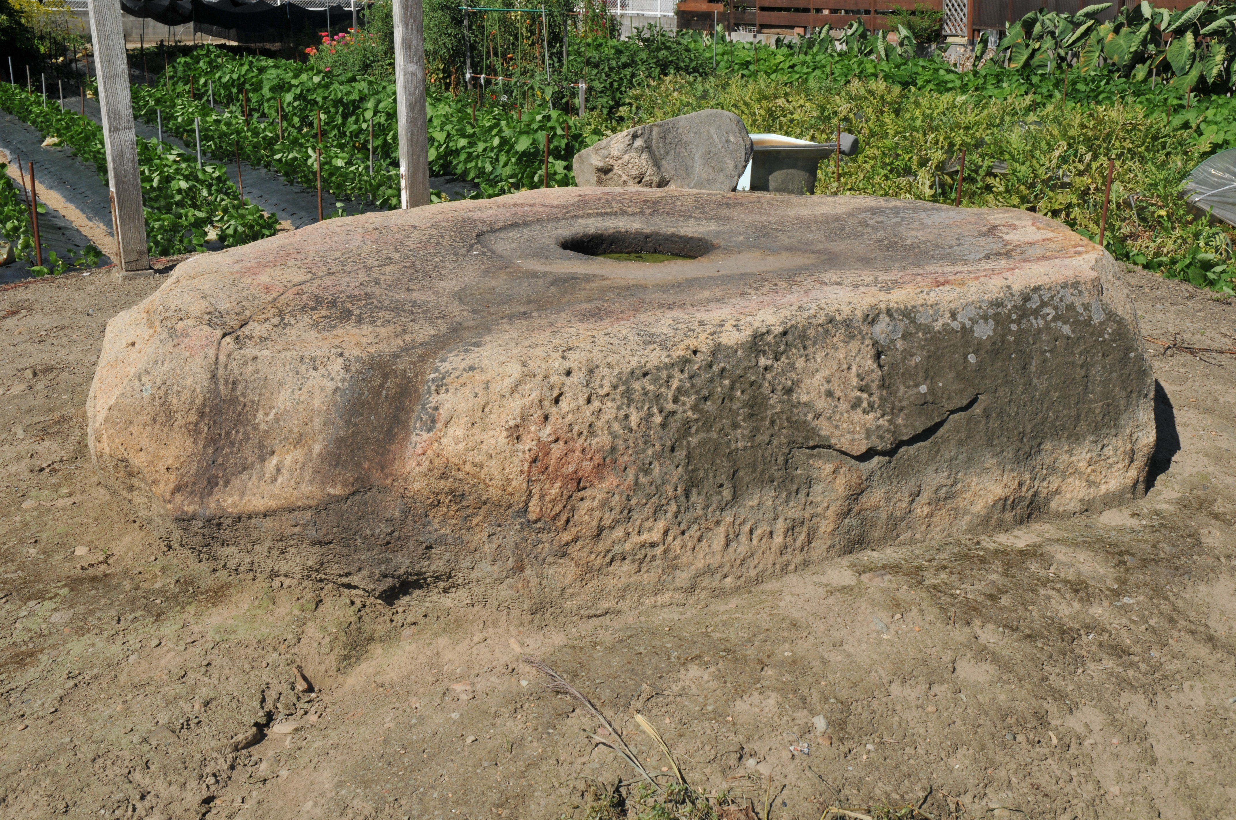 a cornerstone of Hata dilapidated temple's pagpda